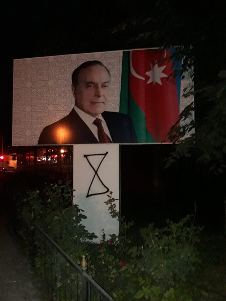 Heydar Aliyev billboard hourglasses